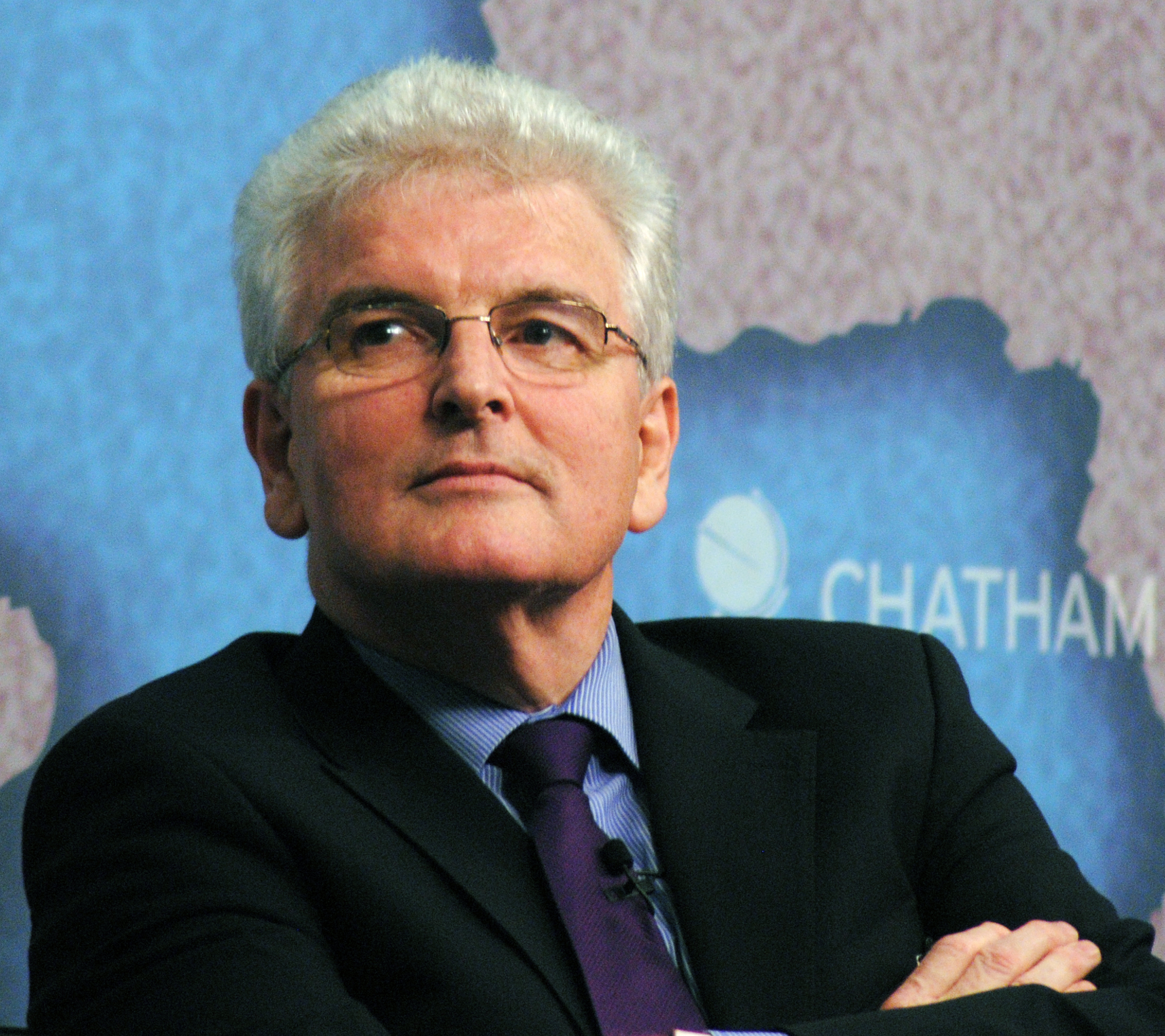 Lord Browne of Ladyton (Des Browne), Secretary of State for Defence (2006-08) at the Chatham House event Do Nuclear Weapons Deter? 9 July 2013 cht.hm/12BrP0q